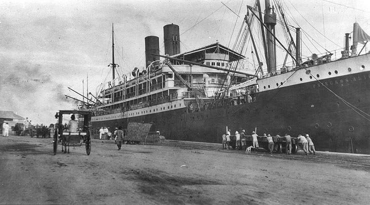 SS Princess Alice (German Passenger Liner, 1900) Interned at Cebu, Philippine Islands, circa 1914-1916. This ship later served as USS Princess Matoika. Collection of C.A. Shively, 1978. U.S. Naval Historical Center Photograph.